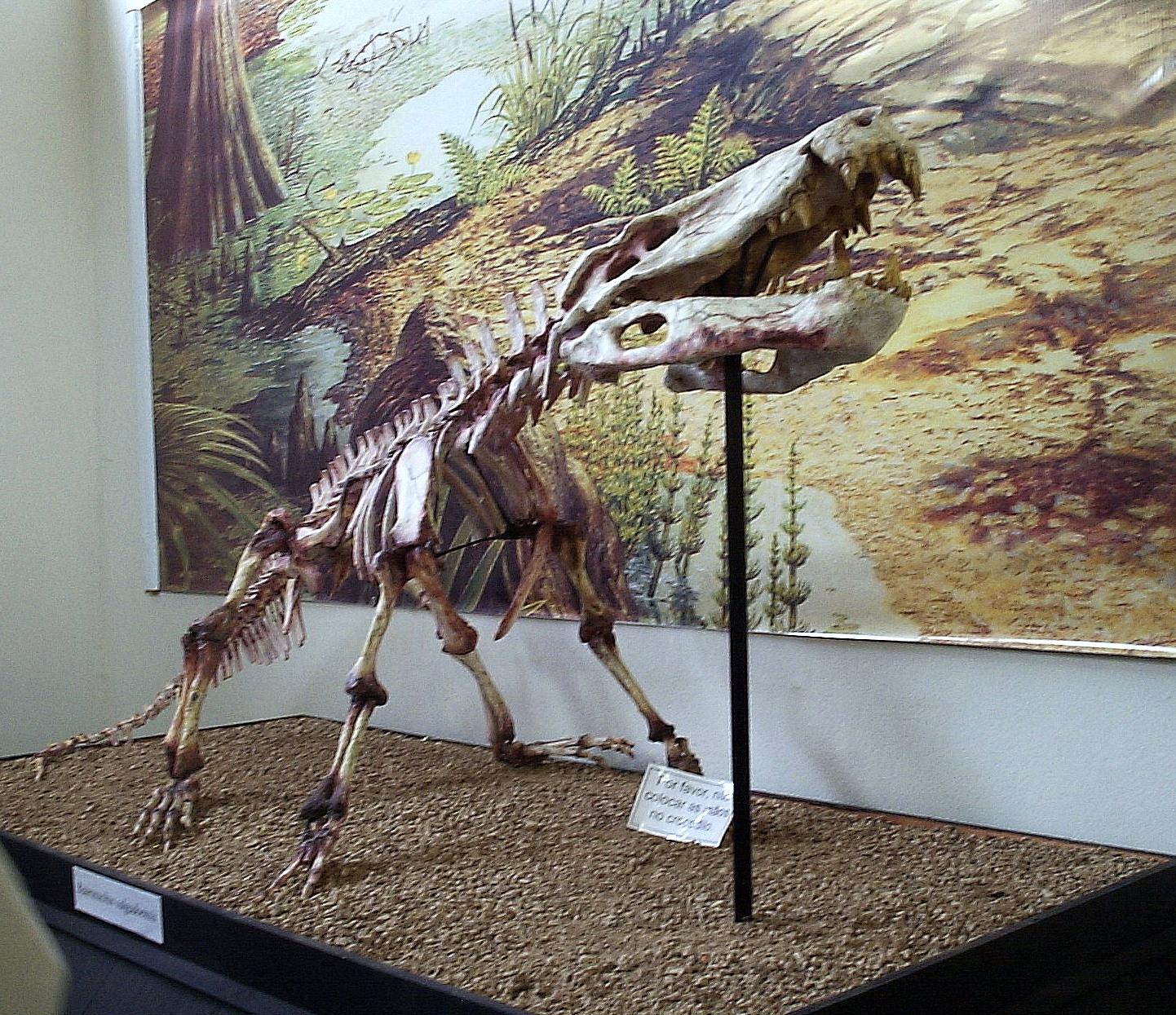 Original skeleton of a Baurusuchus salgadoensis, a prehistoric reptile from the Cretaceous of Brazil, extinct about 90,000,000 years ago. Collection of the Monte Alto Museum of Paleontology, Monte Alto, SP, Brazil.